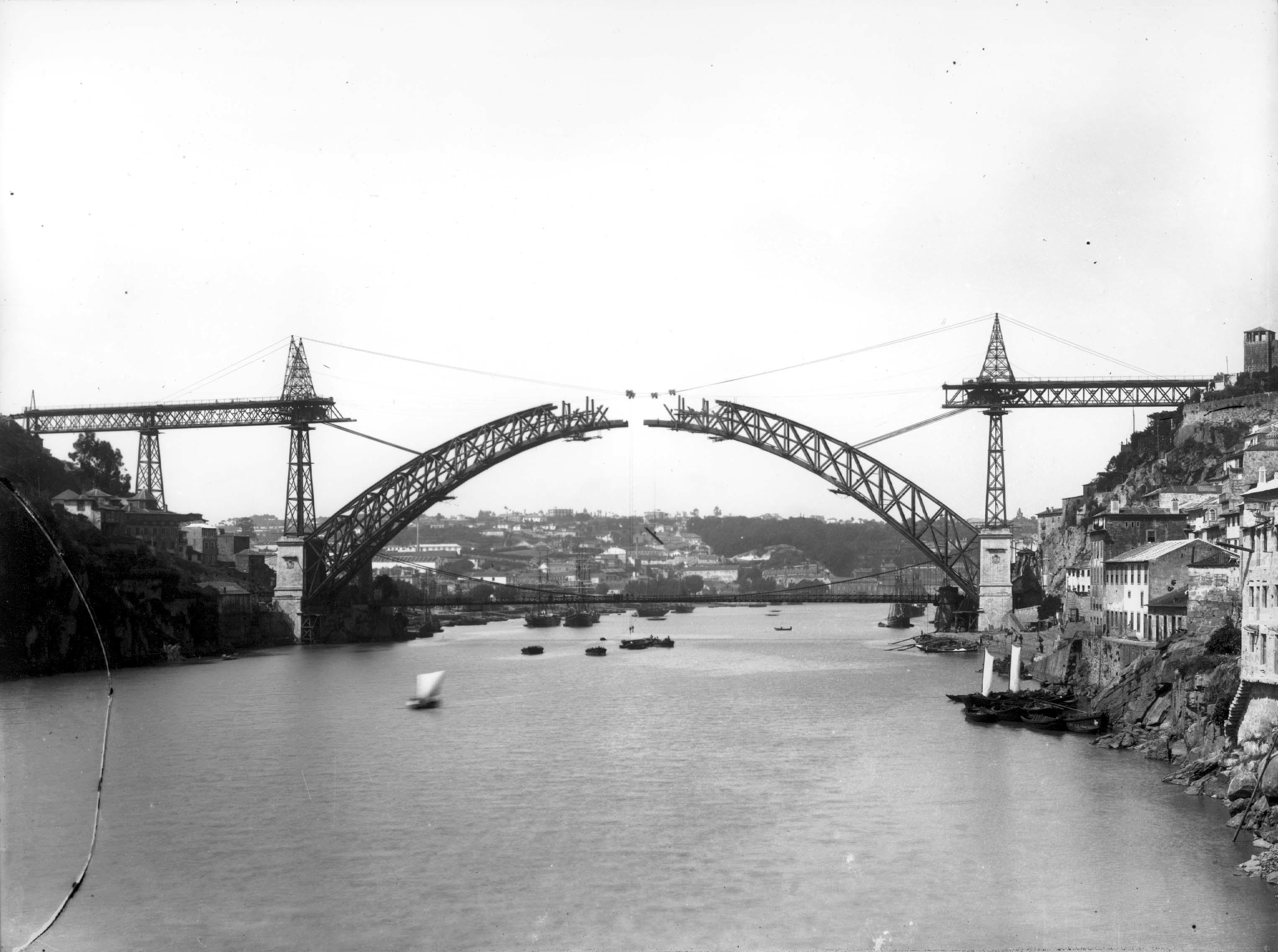 Dom Luís Bridge, Porto. Arch in construction